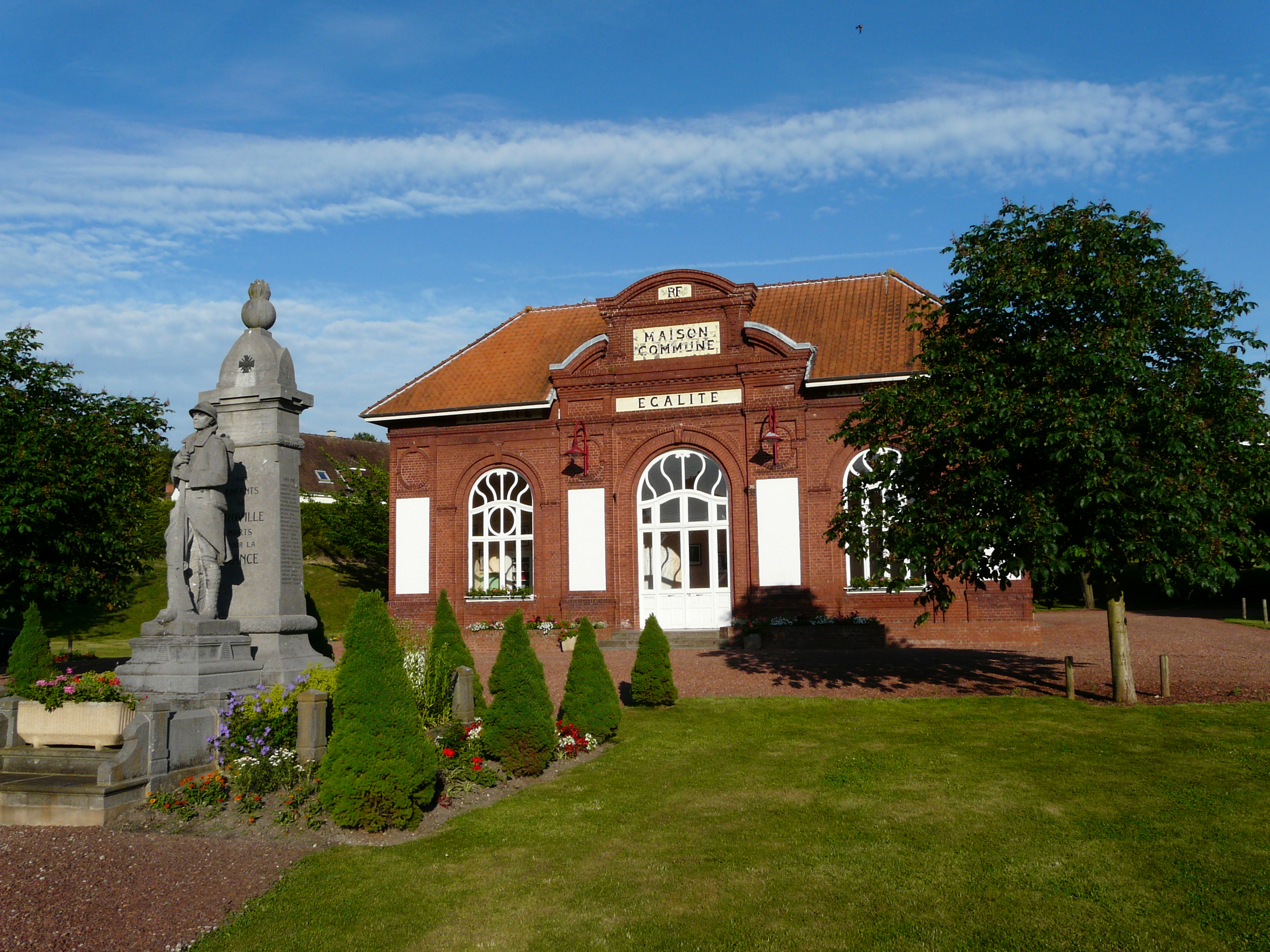 The town hall and WWI memorial in Proville (dept of Nord, France)